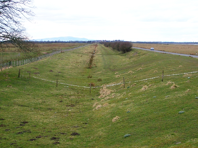 Line of former canal and railway The Carlisle Canal, opened in 1823, passed through here on its route to Port Carlisle. By 1854 it had been drained and replaced by a railway, which itself closed in 1964.